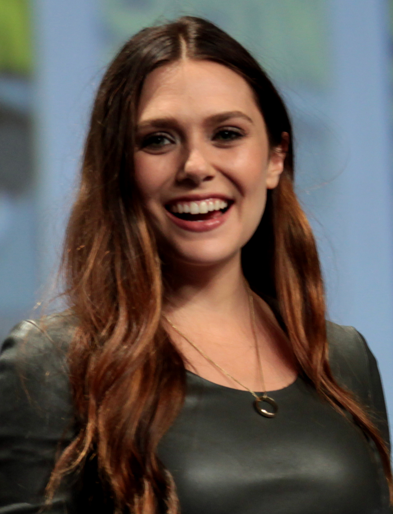 Elizabeth Olsen speaking at the 2014 San Diego Comic Con International, for "Avengers: Age of Ultron", at the San Diego Convention Center in San Diego, California.